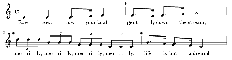 Music for "Row, row, row your boat". Music and lyrics public domain. Engraving by me.